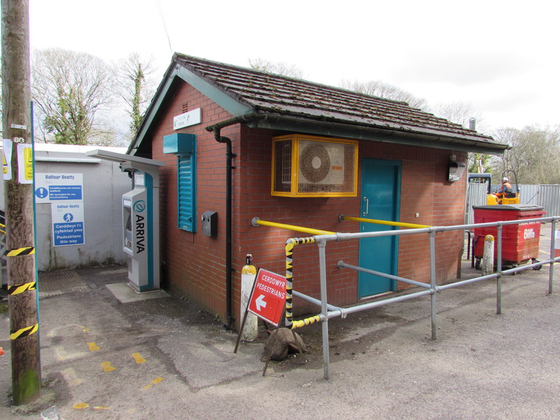 Ticket office and ticket machine, Radyr railway station, Cardiff In March 2015, the ticket office is open from 6.30am-1pm Mondays-Fridays, 8.30am-3pm on Saturdays. The Arriva self-service ticket machine can be used at any time.